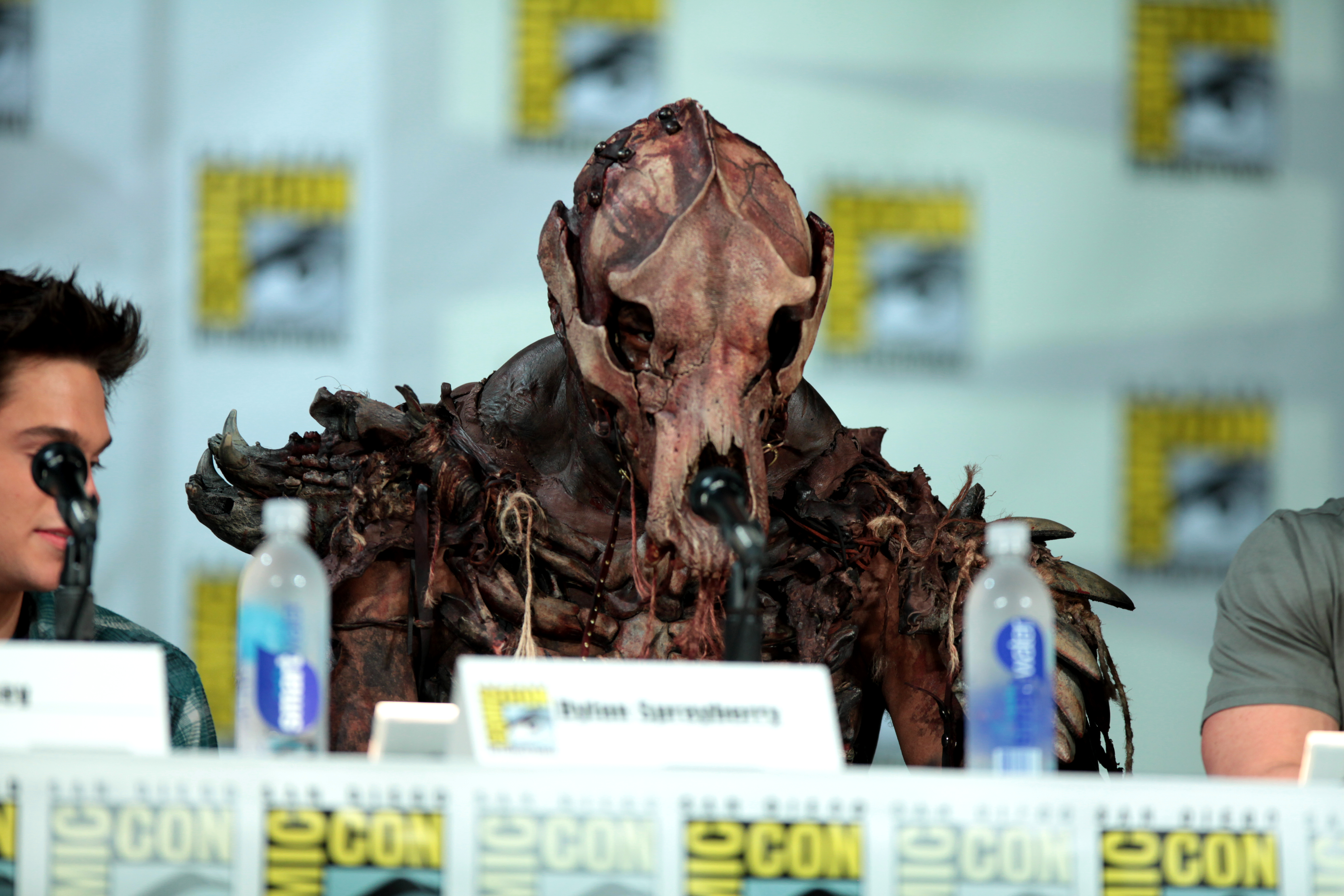 Cosplayer speaking at the 2014 San Diego Comic Con International, for "Teen Wolf", at the San Diego Convention Center in San Diego, California.